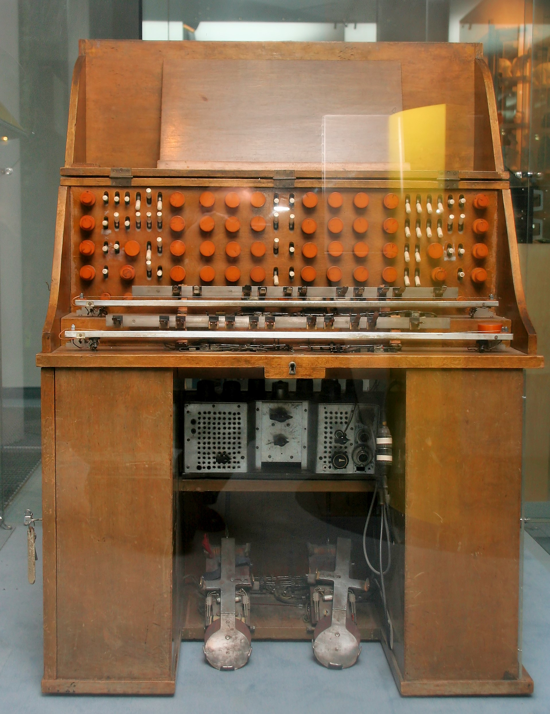 Mixtur Trautonium. One of two instruments worldwide. Deutsches Museum Bonn